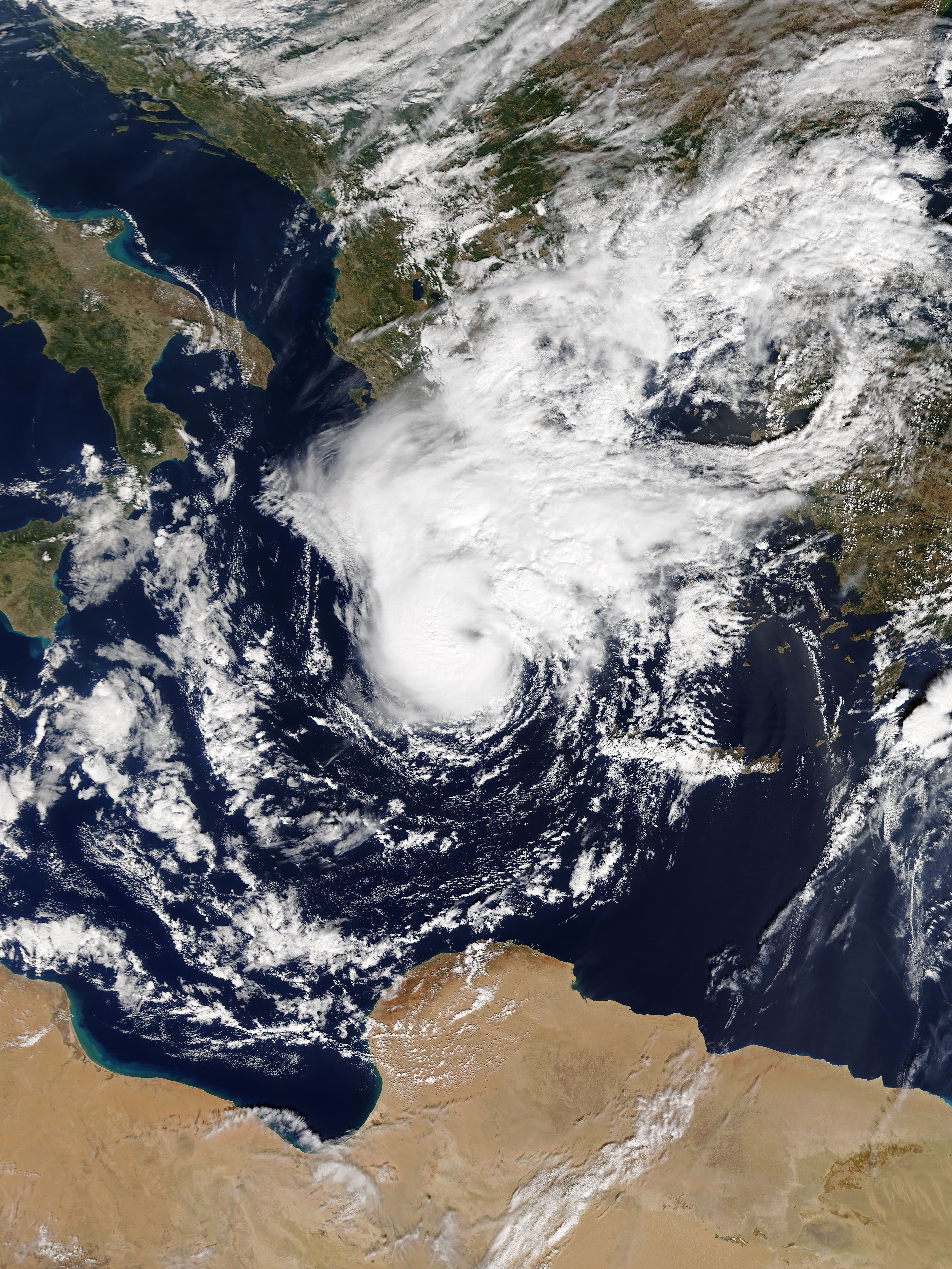 Medicane Zorbas making landfall over the Peloponnese at peak intensity on 29 September 2018.